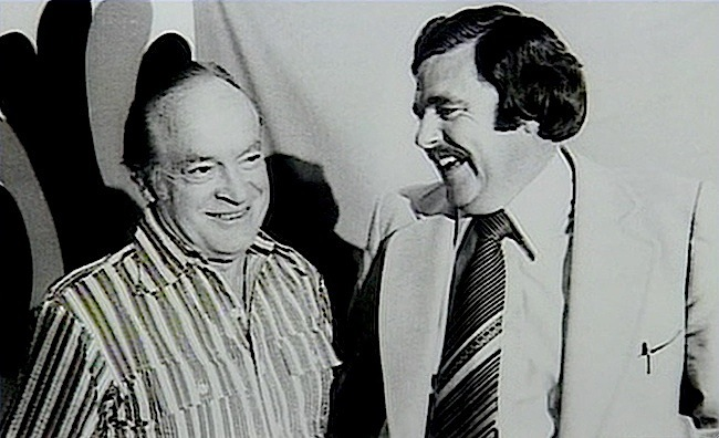 JKW and Bob Hope